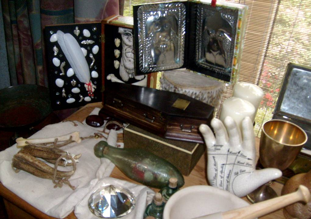 Various Artefacts Witchcraft tools From Mal Corvus Witchcraft & Folklore artefact private collection owned by Malcolm Lidbury (aka Pink Pasty)